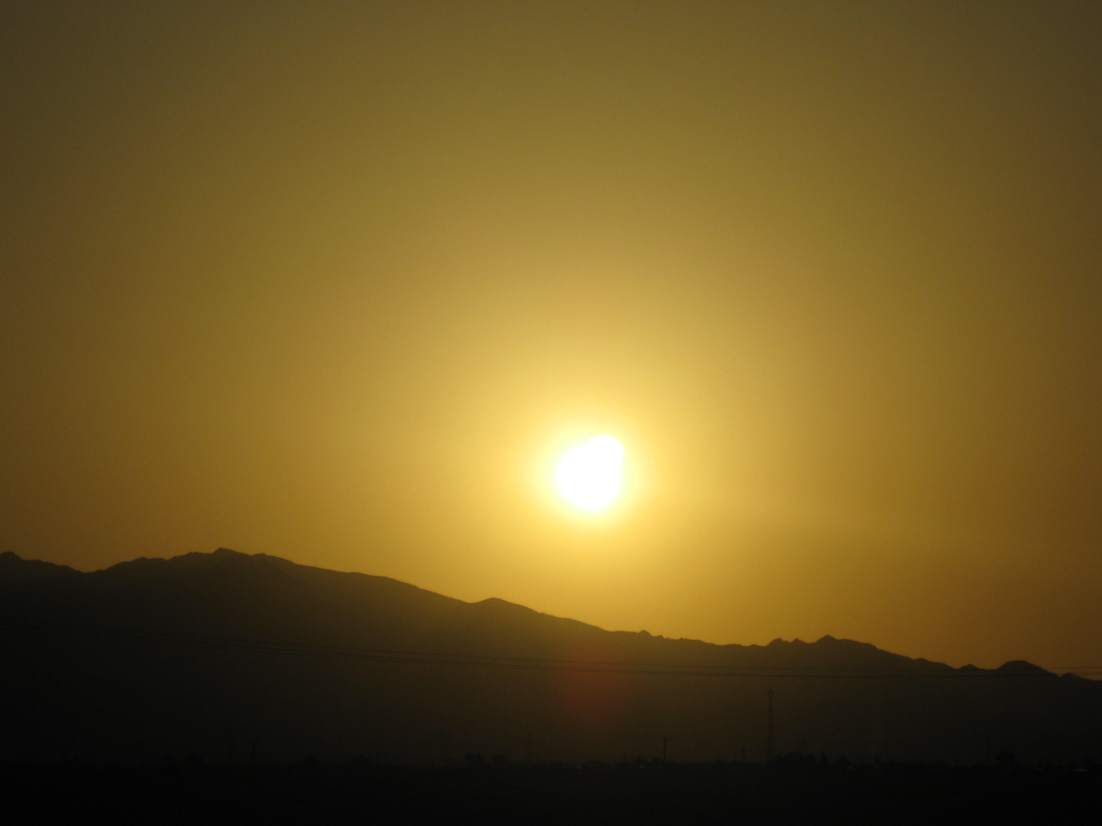 Solar eclipse in Iran Mashhad Tehran way 22 July 2009